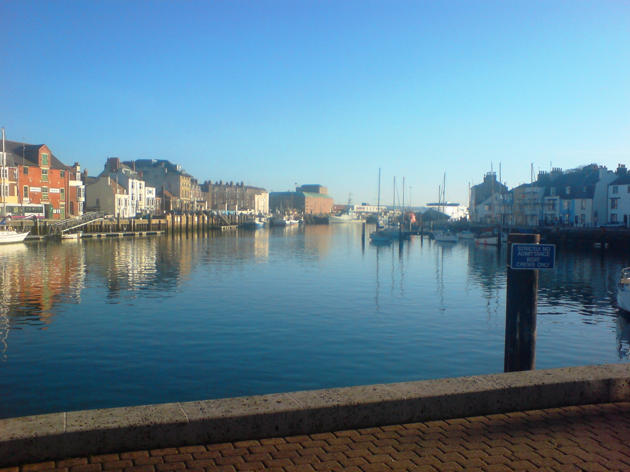 Weymouth Outer Harbour, Dorset